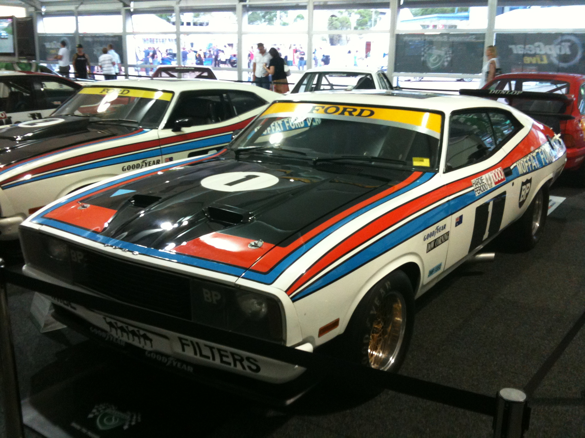 1977 Ford XC Falcon Hardtop Group C. This is the car driven by Allan Moffat and Jackie Ickx to outright victory in the 1977 Hardie Ferodo 1000 race, held at the Mount Panorama Circuit at Bathurst New South Wales. The Moffat Ford Dealer Team Falcons finished side by side in the famous 1-2 finish. The #2 car, driven by Colin Bond and Alan Hamilton is beside the #1 car. The way the cars are parked staggered here replicates the way they crossed the finish line in the race. Taken at the Top Gear Live show at Acer Arena, in the Olympic Precinct at Homebush in Sydney.